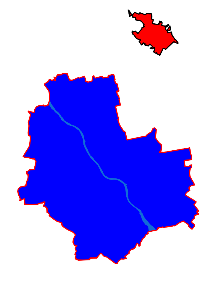 Position of Radzymin in relation to Warsaw, Masovian Voivodeship, Poland This map of Masovian Voivodeship, Poland was created from OpenStreetMap project data, collected by the community. This map may be incomplete, and may contain errors. Don't rely solely on it for navigation.